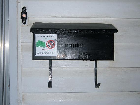 Letterbox in Calgary, ALB, Canada. (original:Photographed by me on March 28, 2008, in Calgary, Alberta, Canada. Excuse my dirty frozen solid mailbox.)